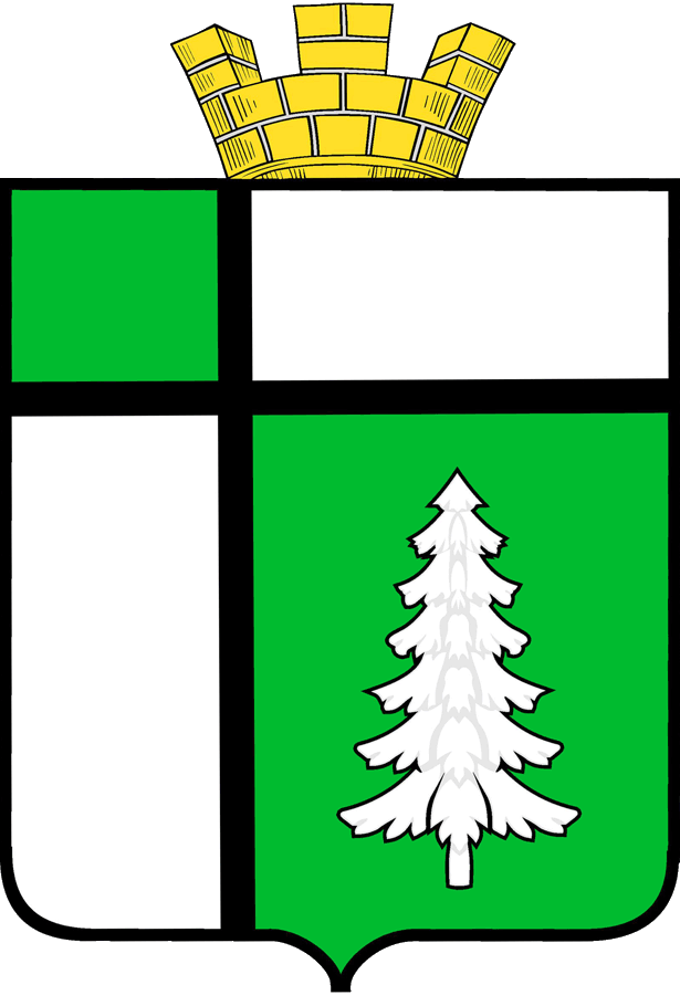 Coat of arms of the city of Tayshet